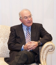 1Jose Antonio Ardanza former lehendakari' (Presidente of the Basque Government), October 27, 2011.